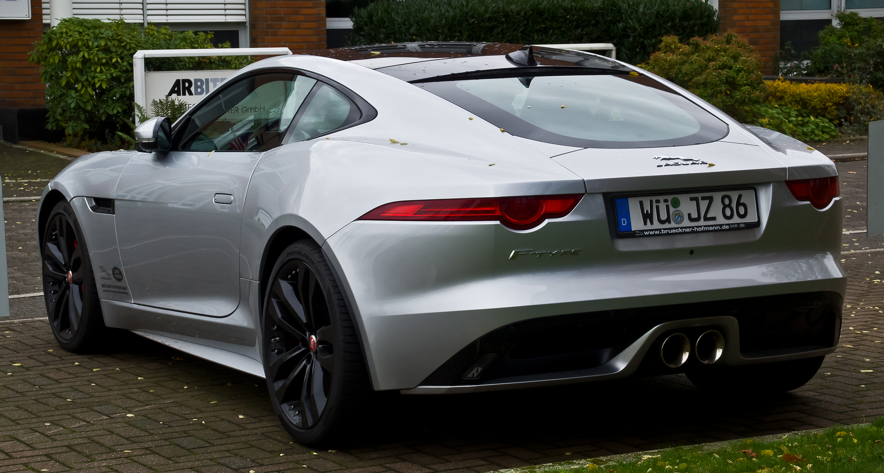 Jaguar F-Type Coupé